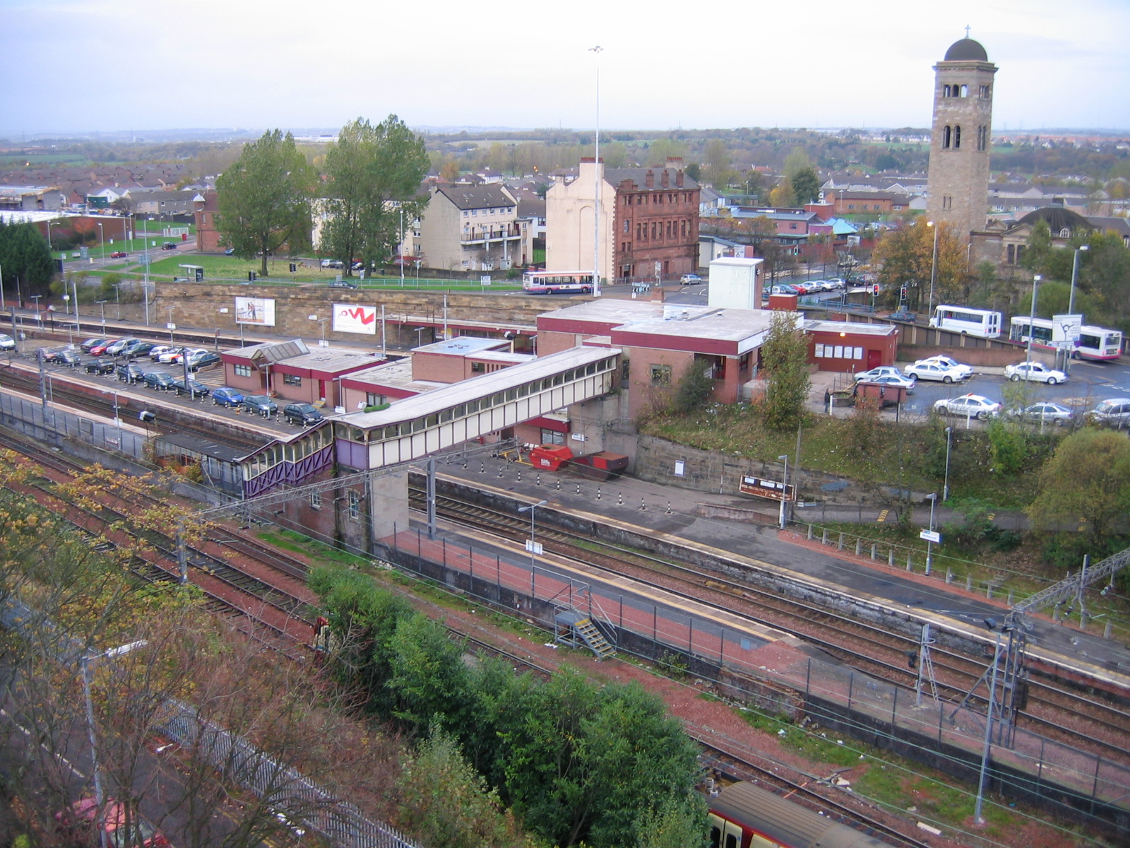 Motherwell Railway Station, North Lanarkshire, Scotland. Taken by Supergolden on 5th November 2005.